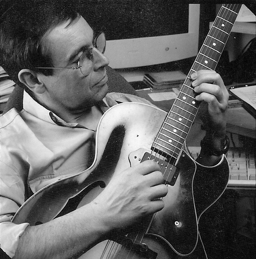 Frédéric plays his Gibson guitar